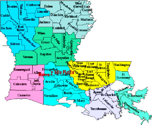 This is a map over Louisiana's regions.